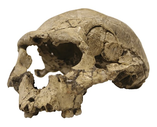 Skull of Homo erectus/Homo georgicus